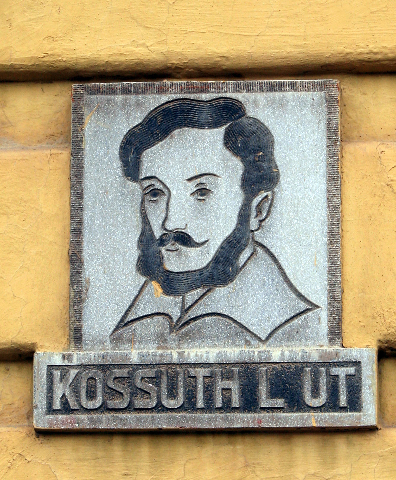 Street sign of Kossuth Street (now Király Street) in Pécs with the portrait of Lajos Kossuth